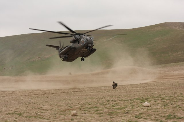 A German Sikorsky CH-53D in Afghanistan.